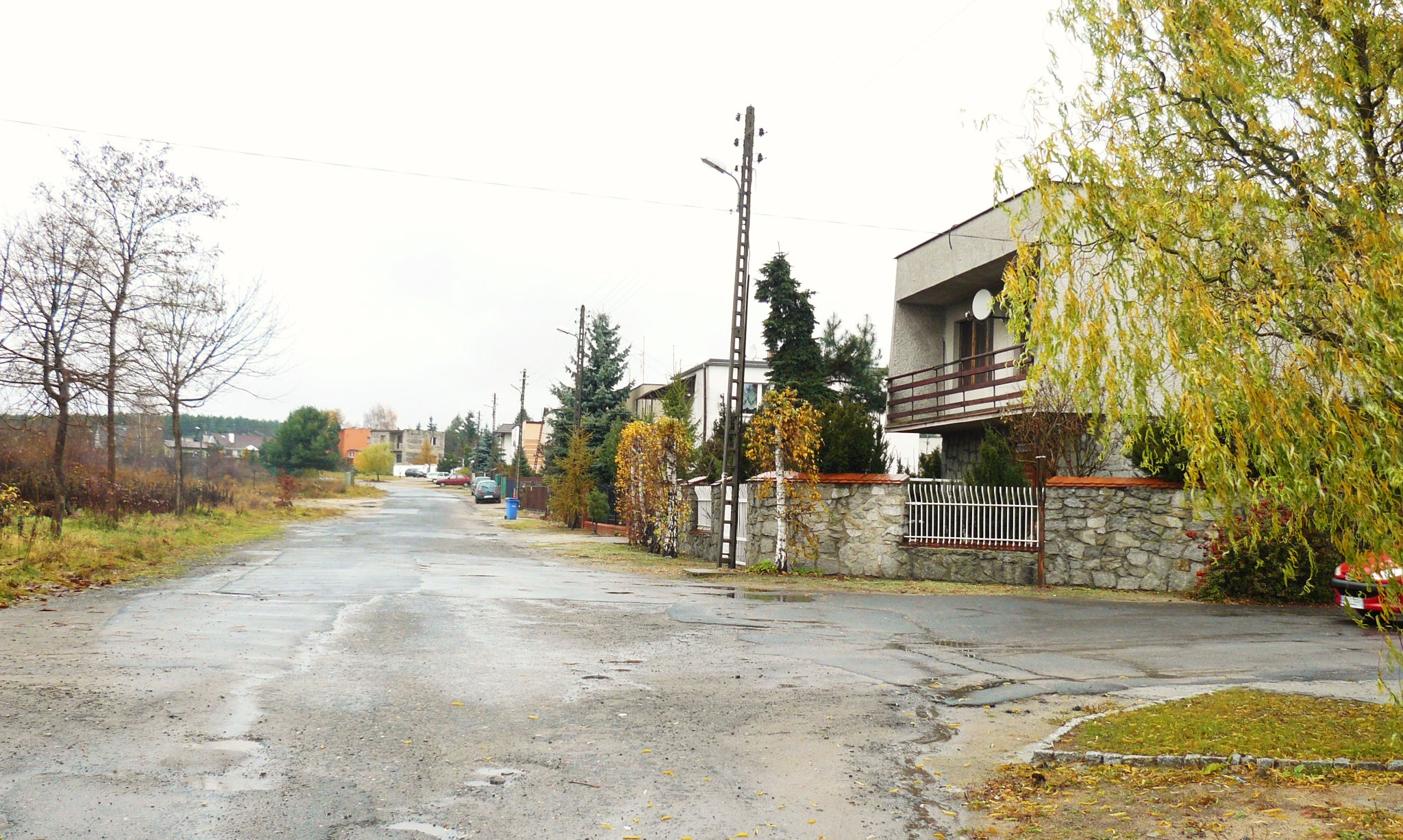 Kresowa Street, Poznan.